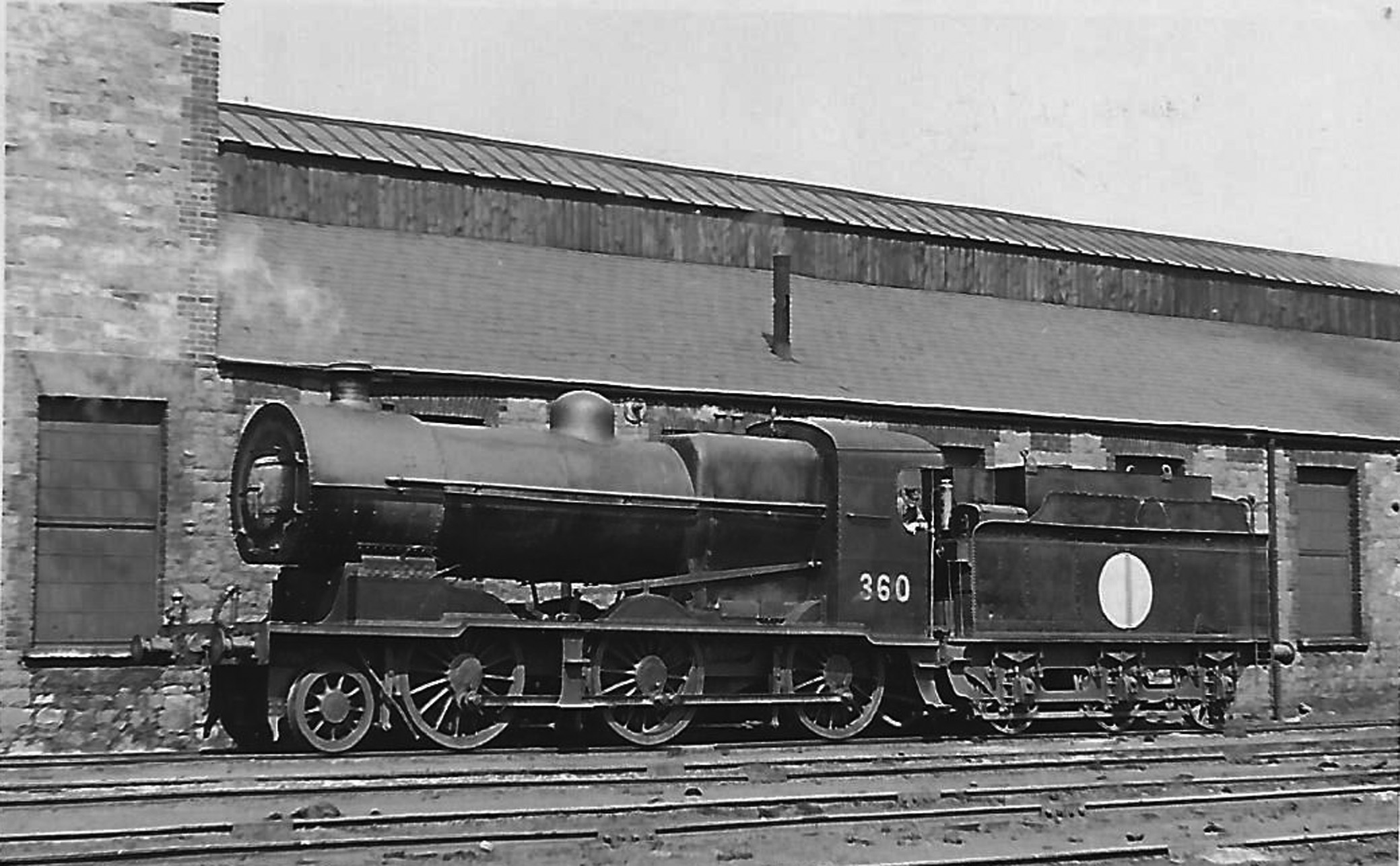 GSR/CIÉ 360 (ex-DSER 16) a 2-6-0 built by Beyer, Peacock & Co. in 1922